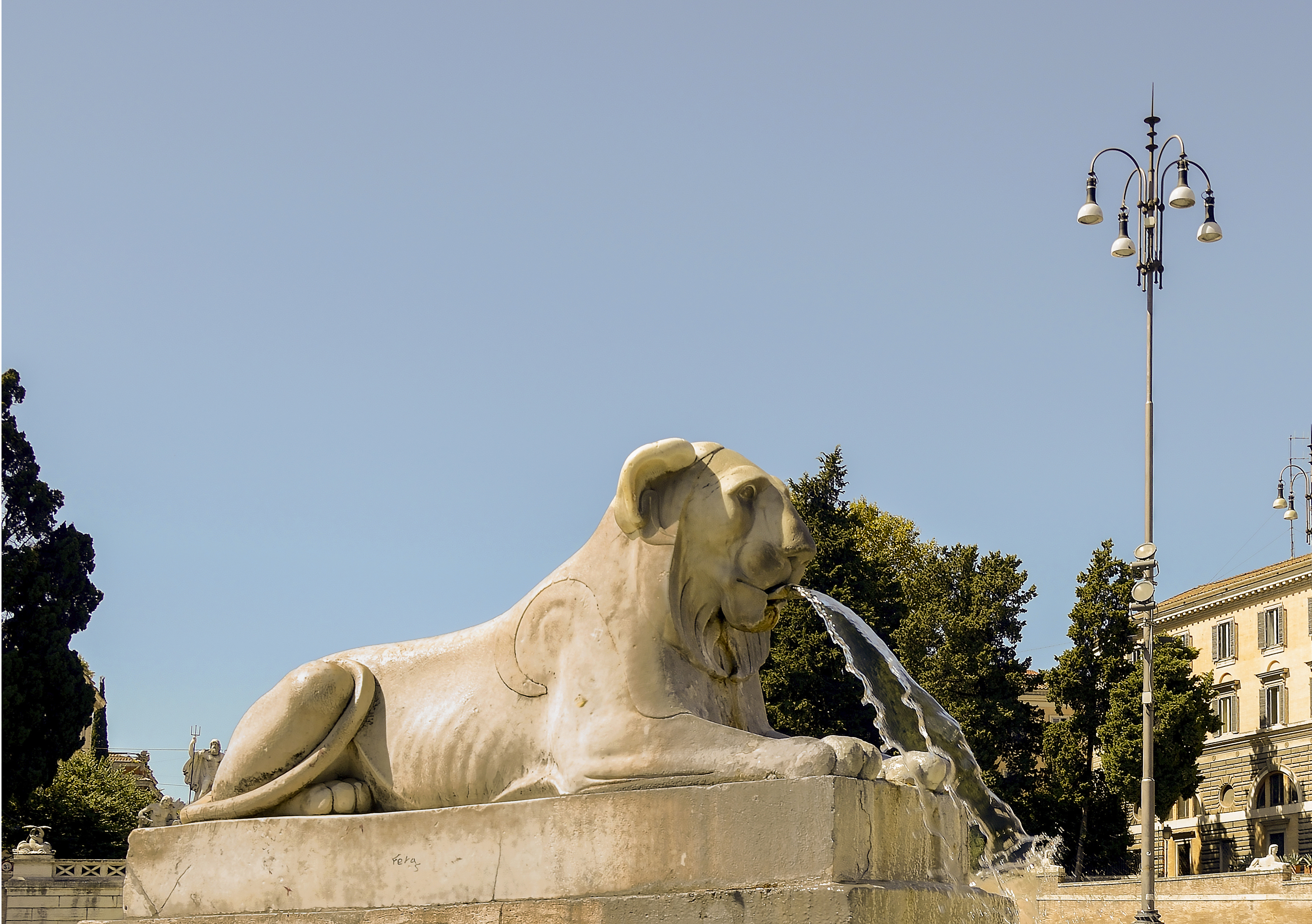 Lion in Piazza del Popolo